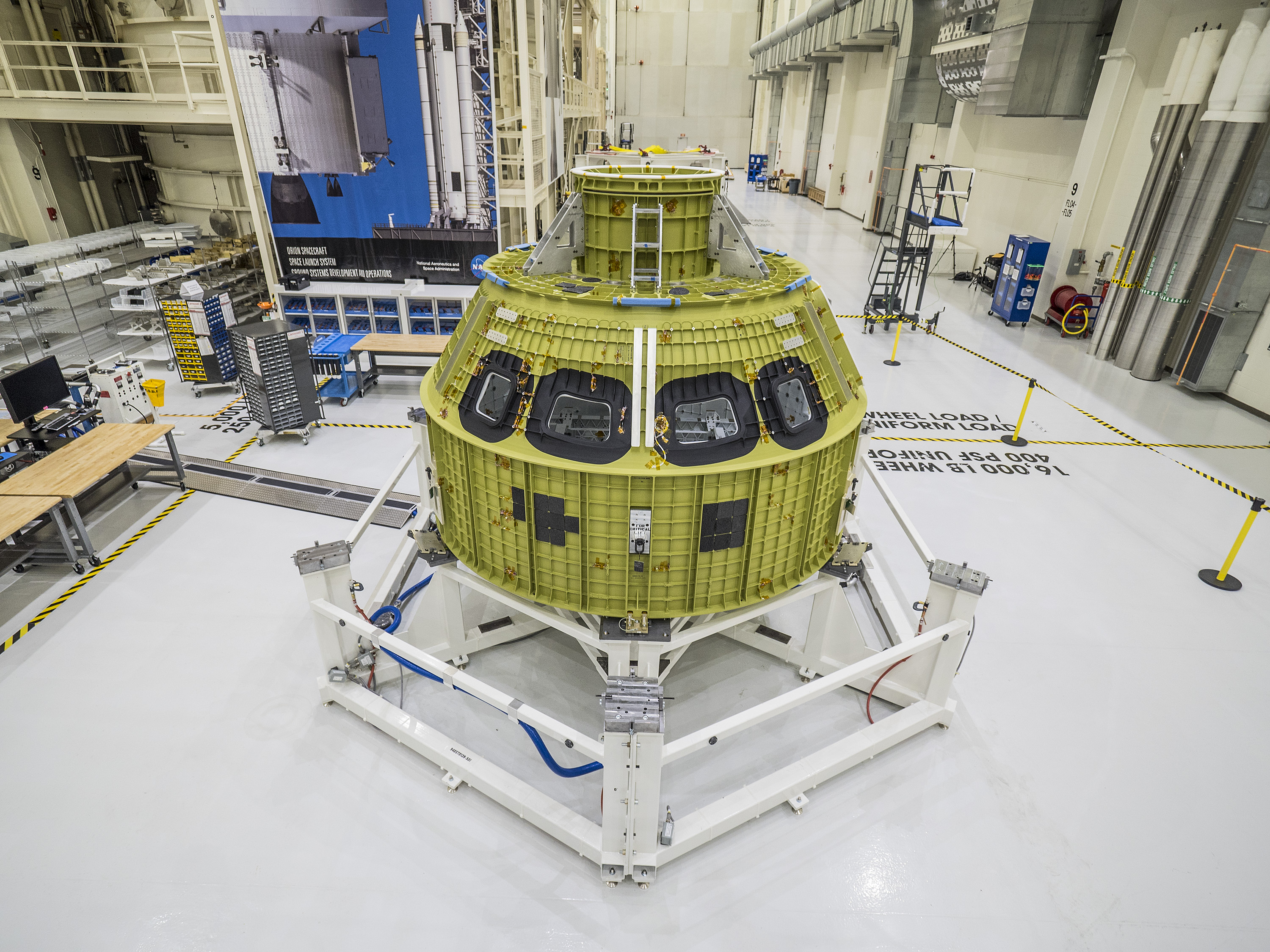 Completed EM-1 Orion weld structure at Kennedy Space Center for final assembly before EM-1.